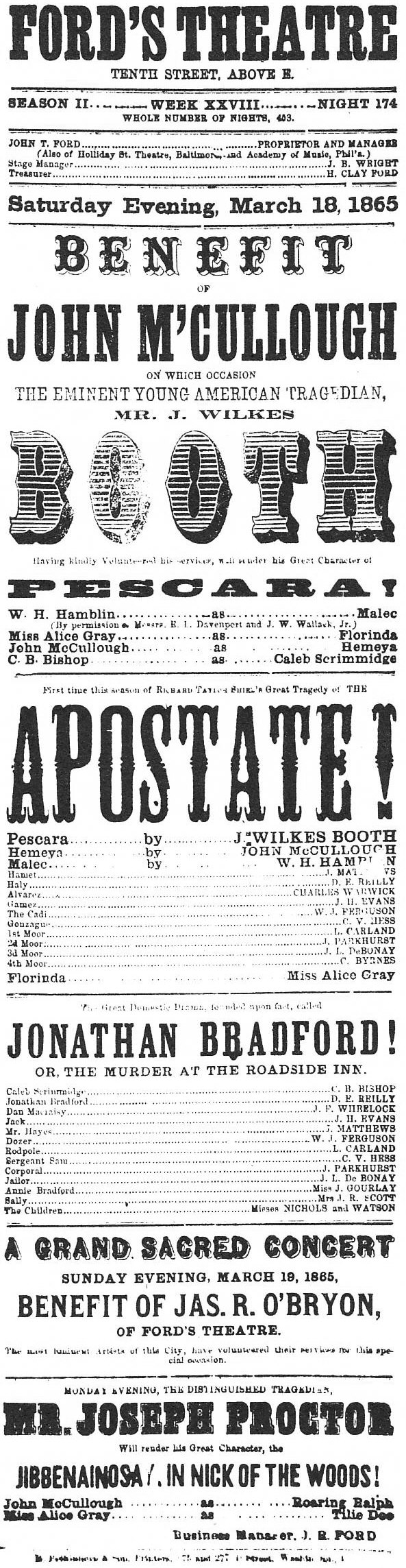 The playbill advertising John Wilkes Booth as Pescara in The Apostate at Ford's Theatre, Washington, D.C., on March 18, 1865 – Booth's final acting appearance and where he would assassinate Abraham Lincoln the following month.